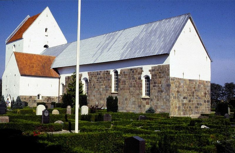 Saltum Kirke in Jammerbugt Kommune